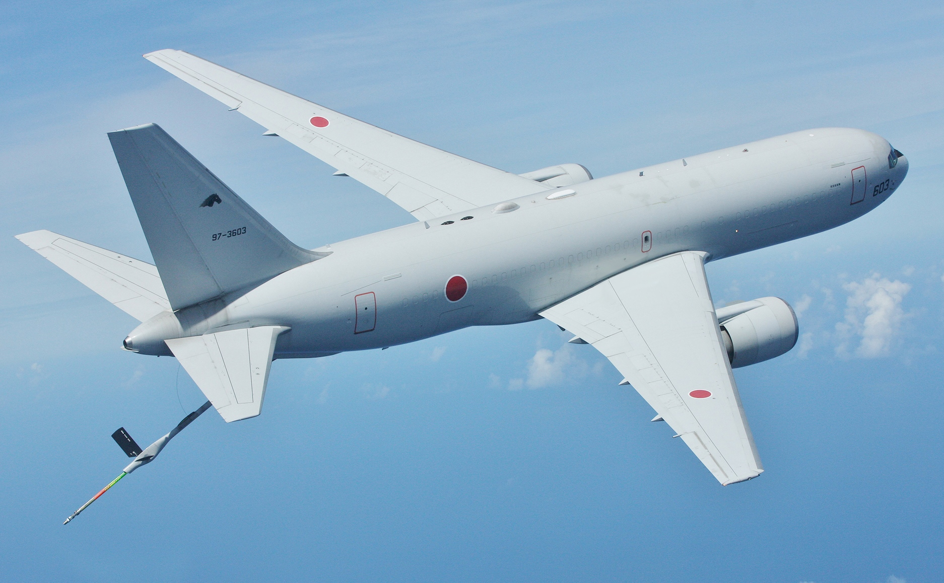 JASDF KC-767 (cropped)